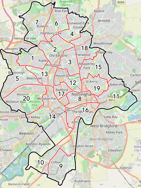 Map of the electoral wards of the City of Nottingham. This map may be incomplete, and may contain errors. Don't rely solely on it for navigation.